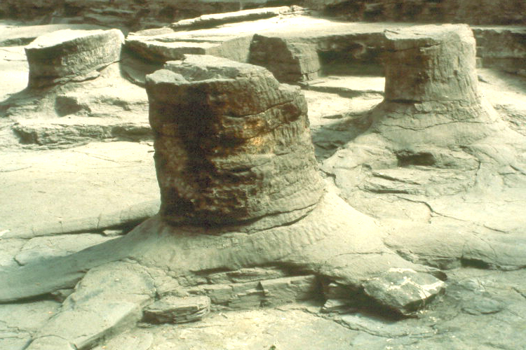 Lycopsid stumps in Victoria Park Glasgow